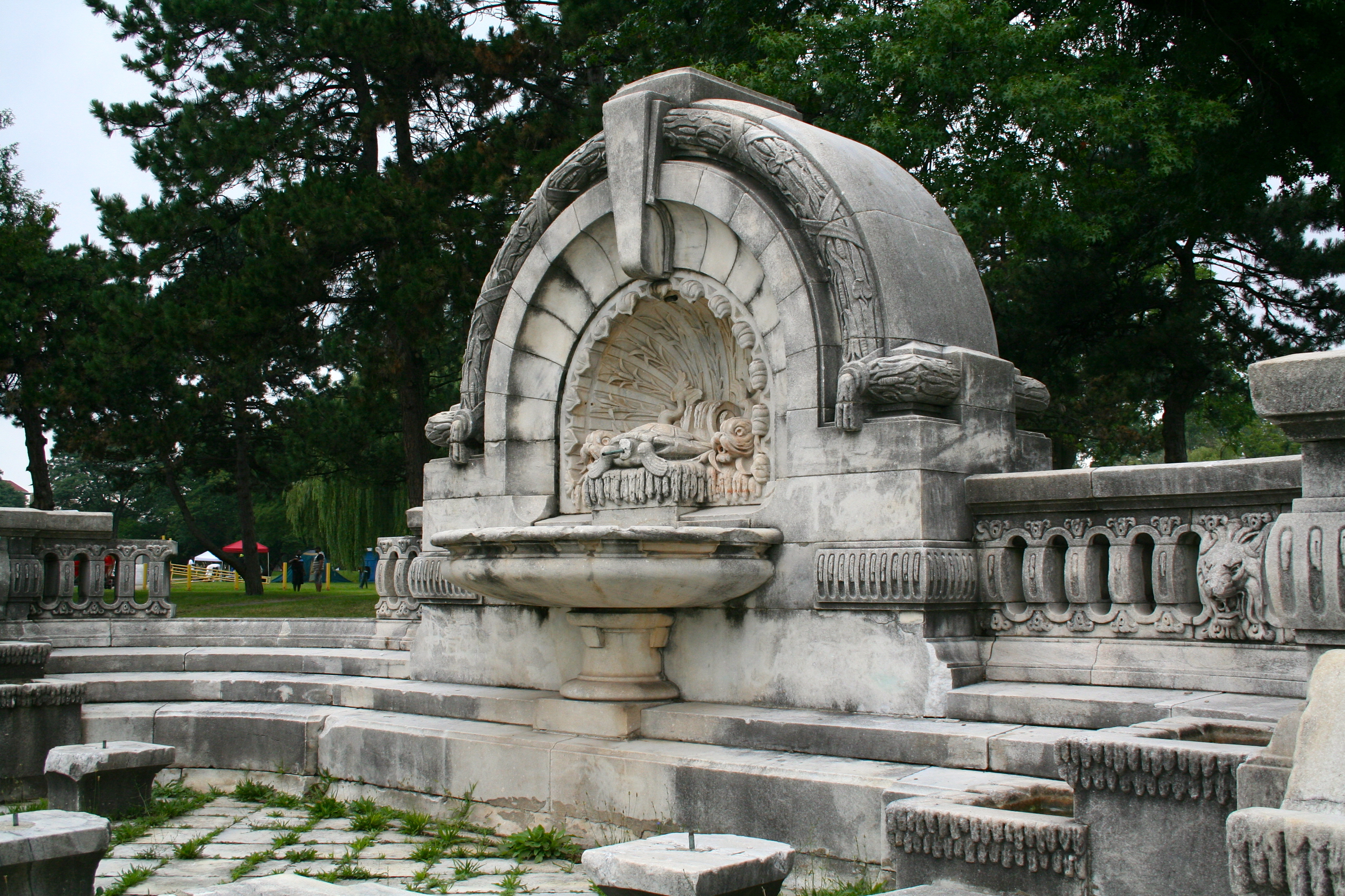 Merrill Humane Fountain in Detroit, Michigan's Palmer Park